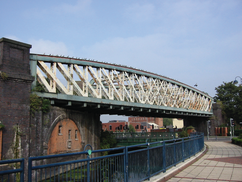 The Bowstring bridge that strides across the River Soar and Western Boulevard at Leicester.